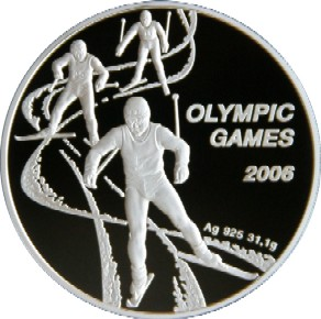 Coin of Kazakhstan